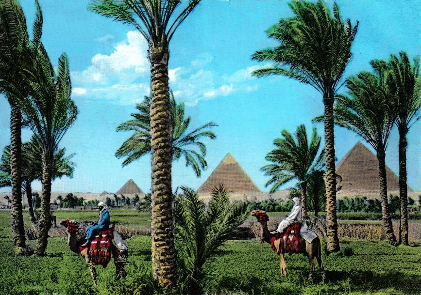 The pyramids of Giza